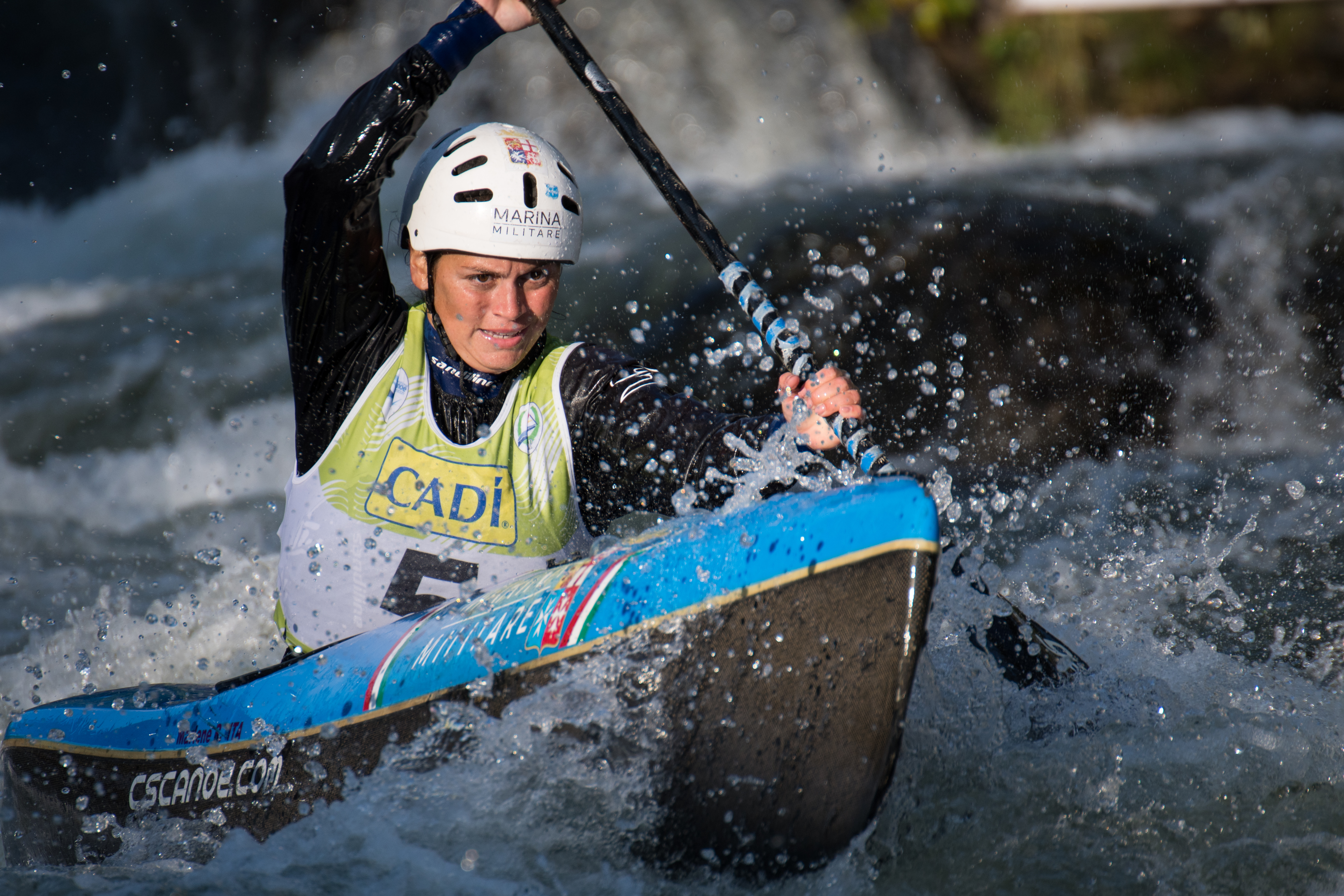 Marlene Ricciardi during the 2019 Canoe Wildwater World Championships in La Seu d'Urgell, Spain.